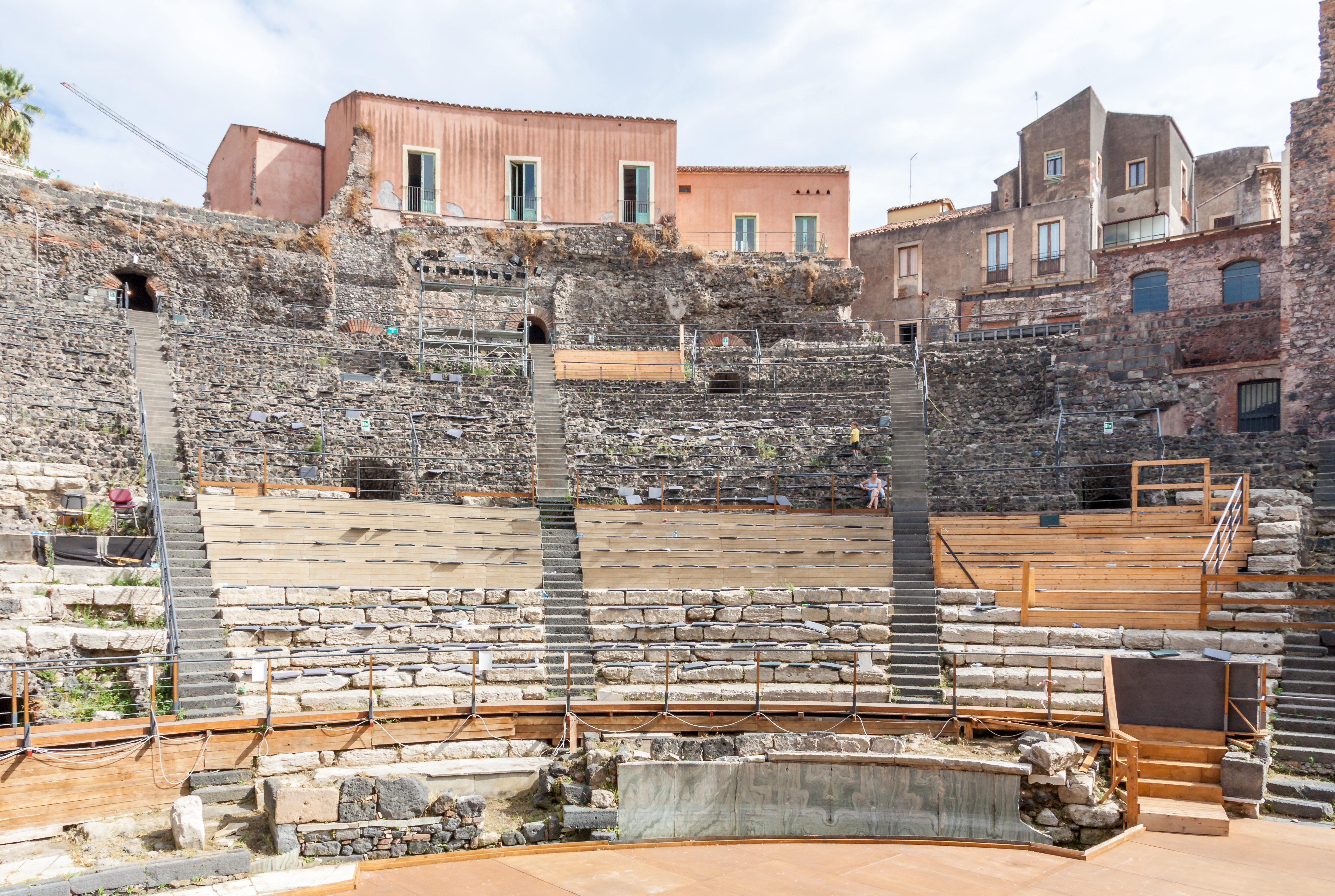 Ruins of Greek-Roman theater, Catania